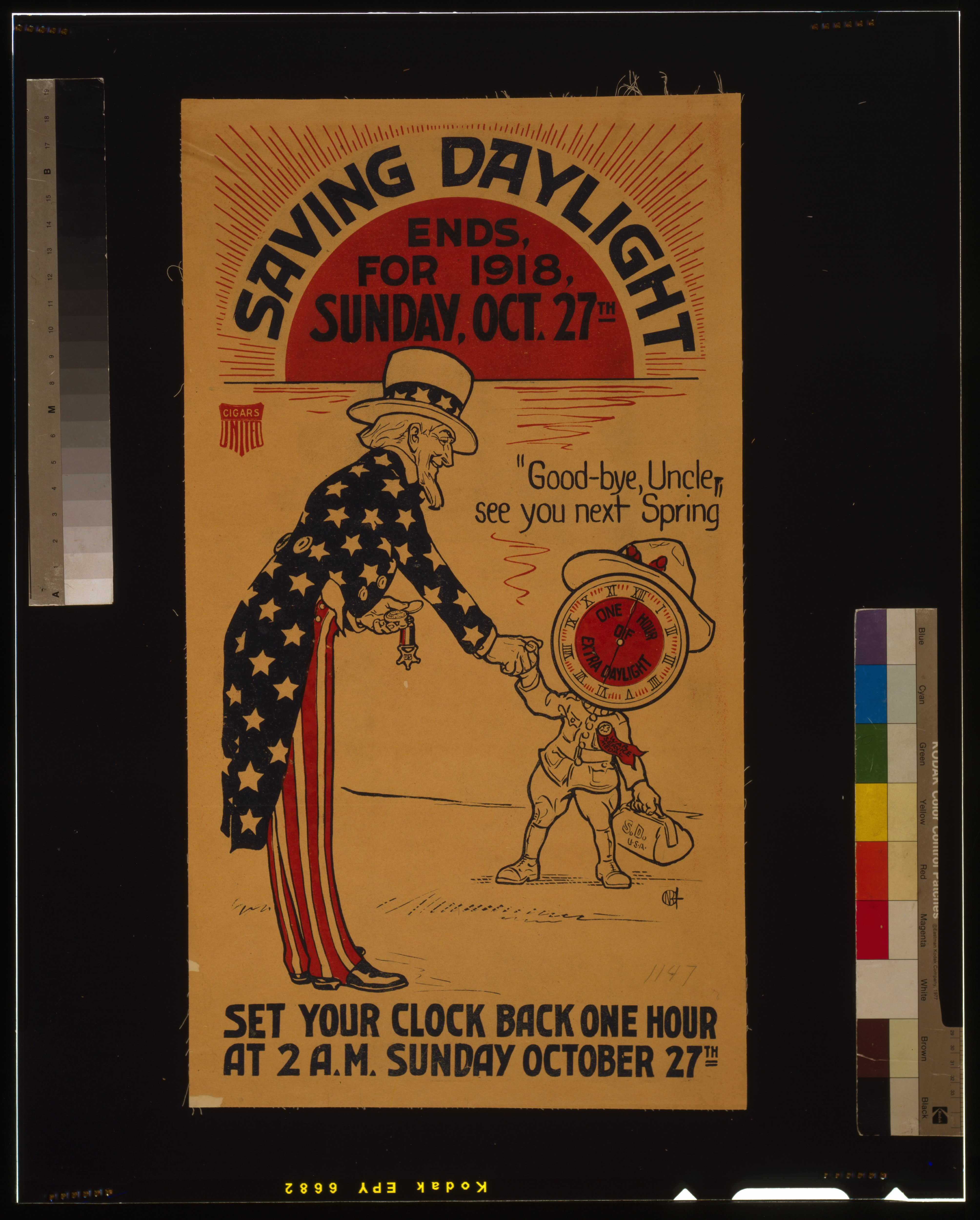 Title: Saving daylight ends, for 1918, Sunday, Oct. 27th Abstract: Poster showing Uncle Sam shaking hands with a clock-headed figure. The clock face reads "One hour of extra daylight," and the figure wears a "War service medal." Physical description: 1 print (poster) : lithograph, color ; 68 x 38 cm. Notes: Unidentified artist's monogram.; Caption: "Goodbye, Uncle, see you next Spring."; Title from item.